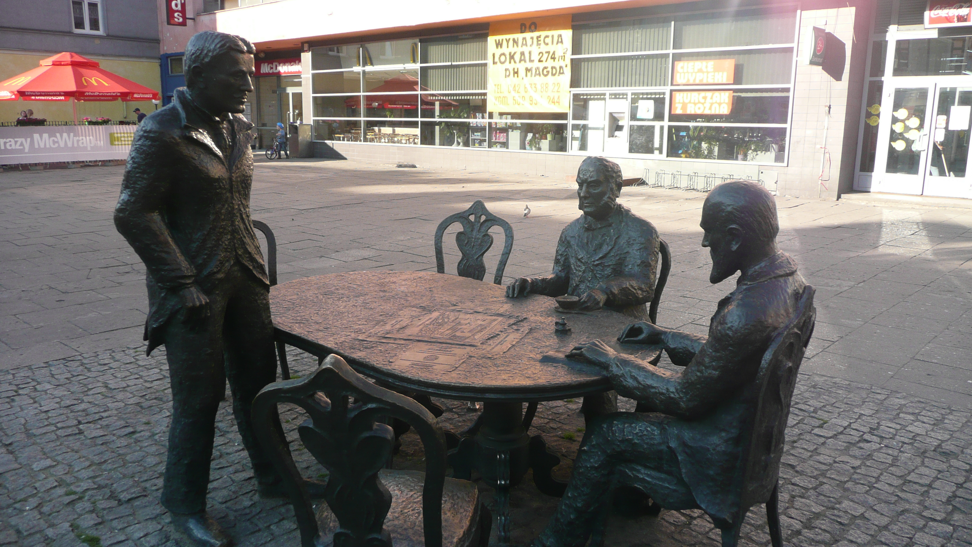 Three factory owners in Lodz: Ludwik Grohman, Karl Wilhelm Scheibler, Izrael Poznanski in Piotrkowska street